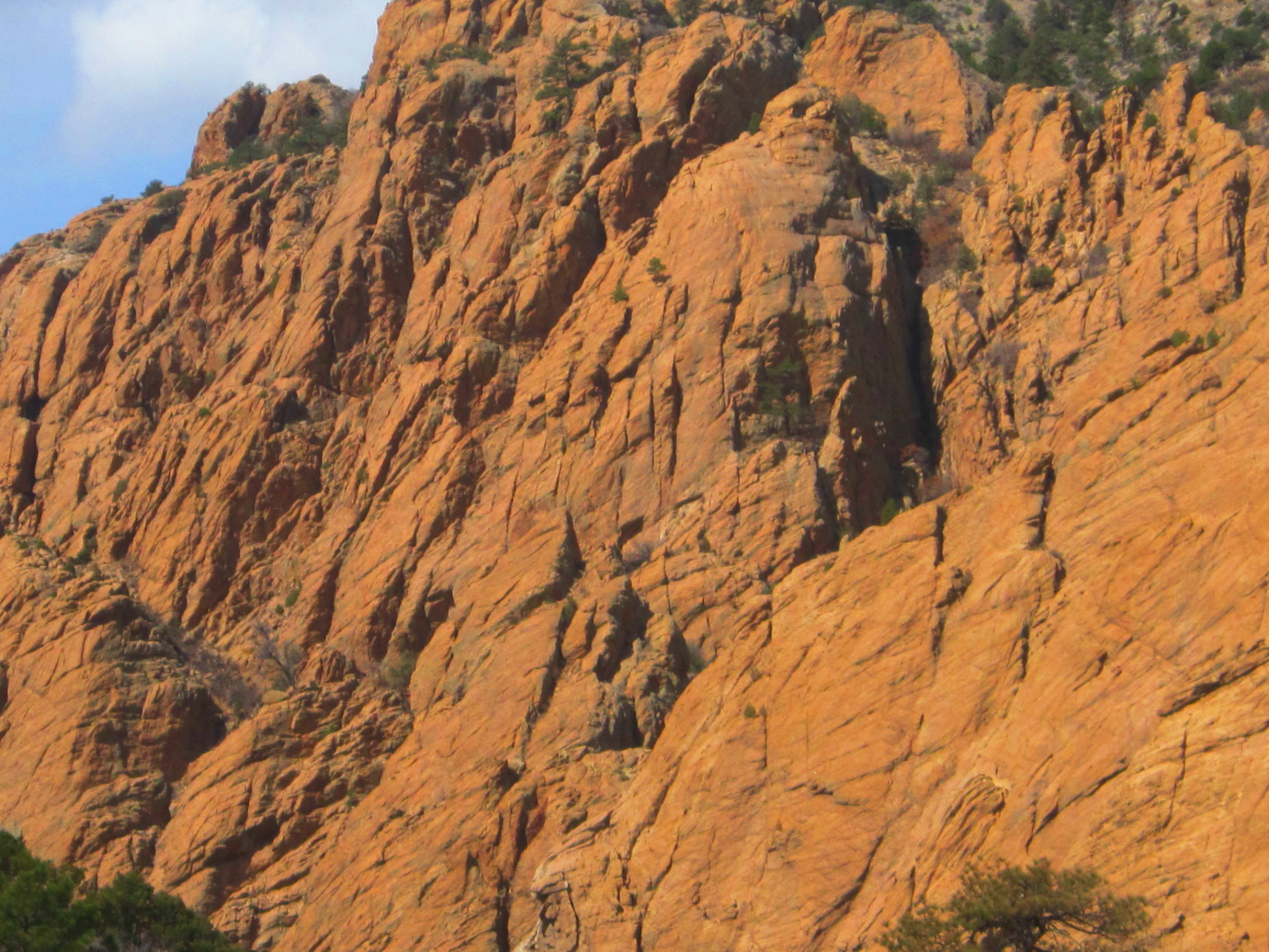 Canyon wall along Arkansas river in CO